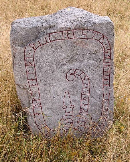 So194 Brosicke